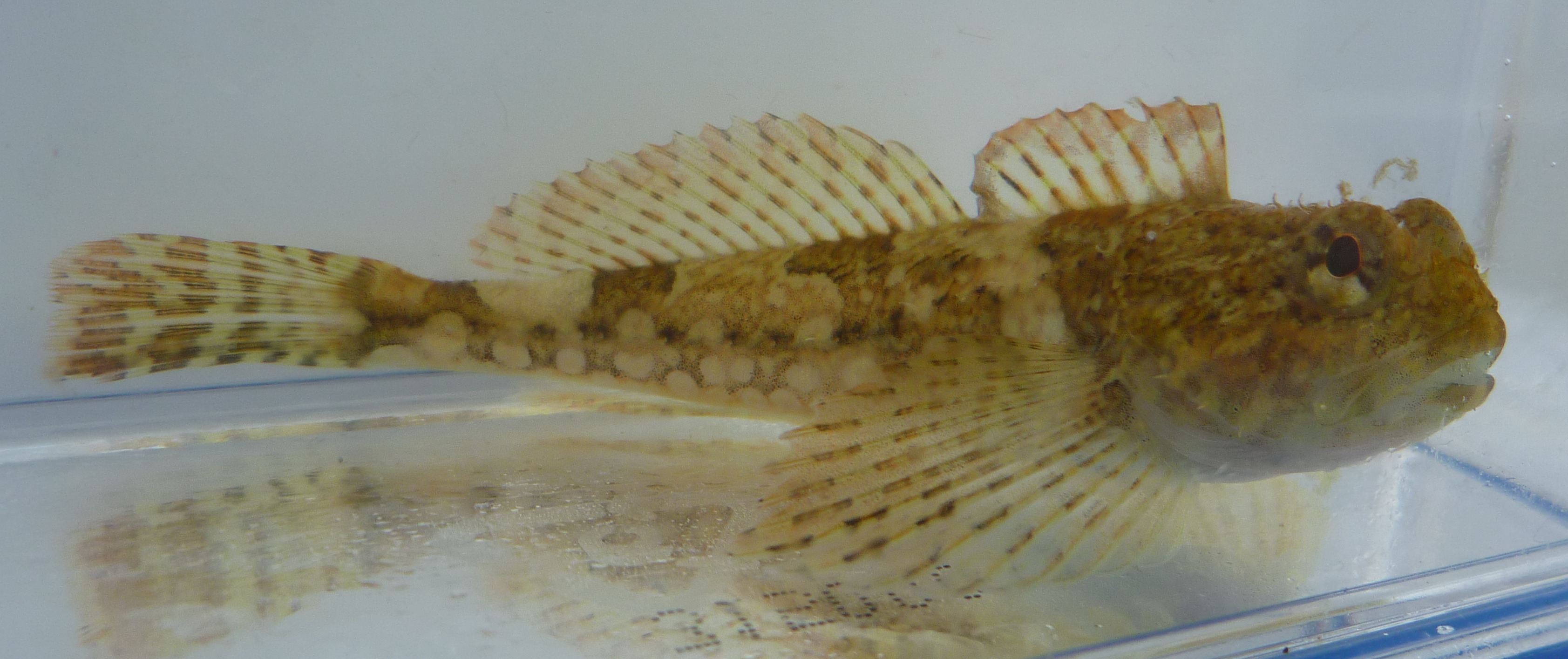 Adult of the species Artedius harringtoni (Scalyhead sculpins).